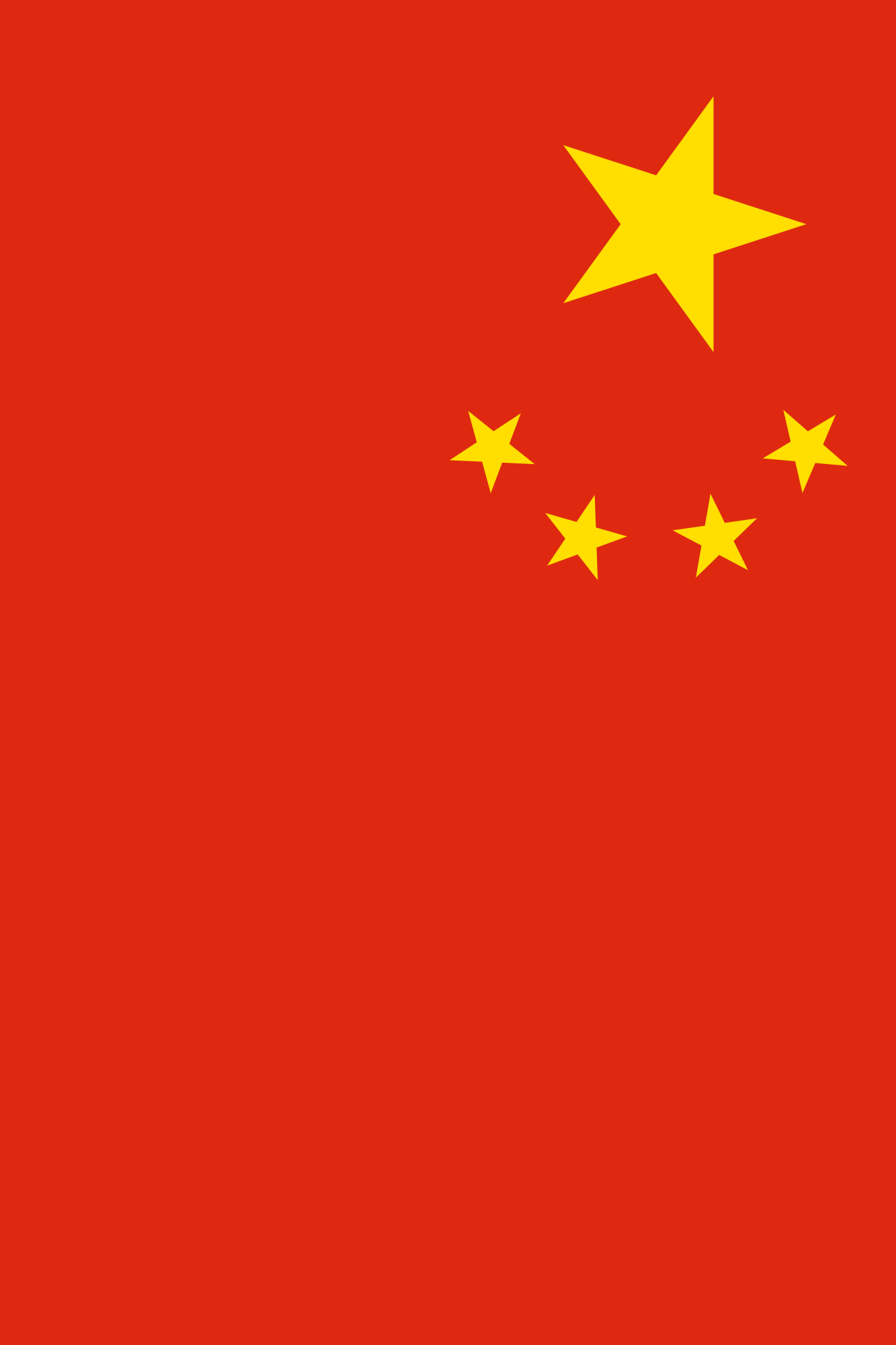 Proper vertical display of the National flag of the People's Republic of China.